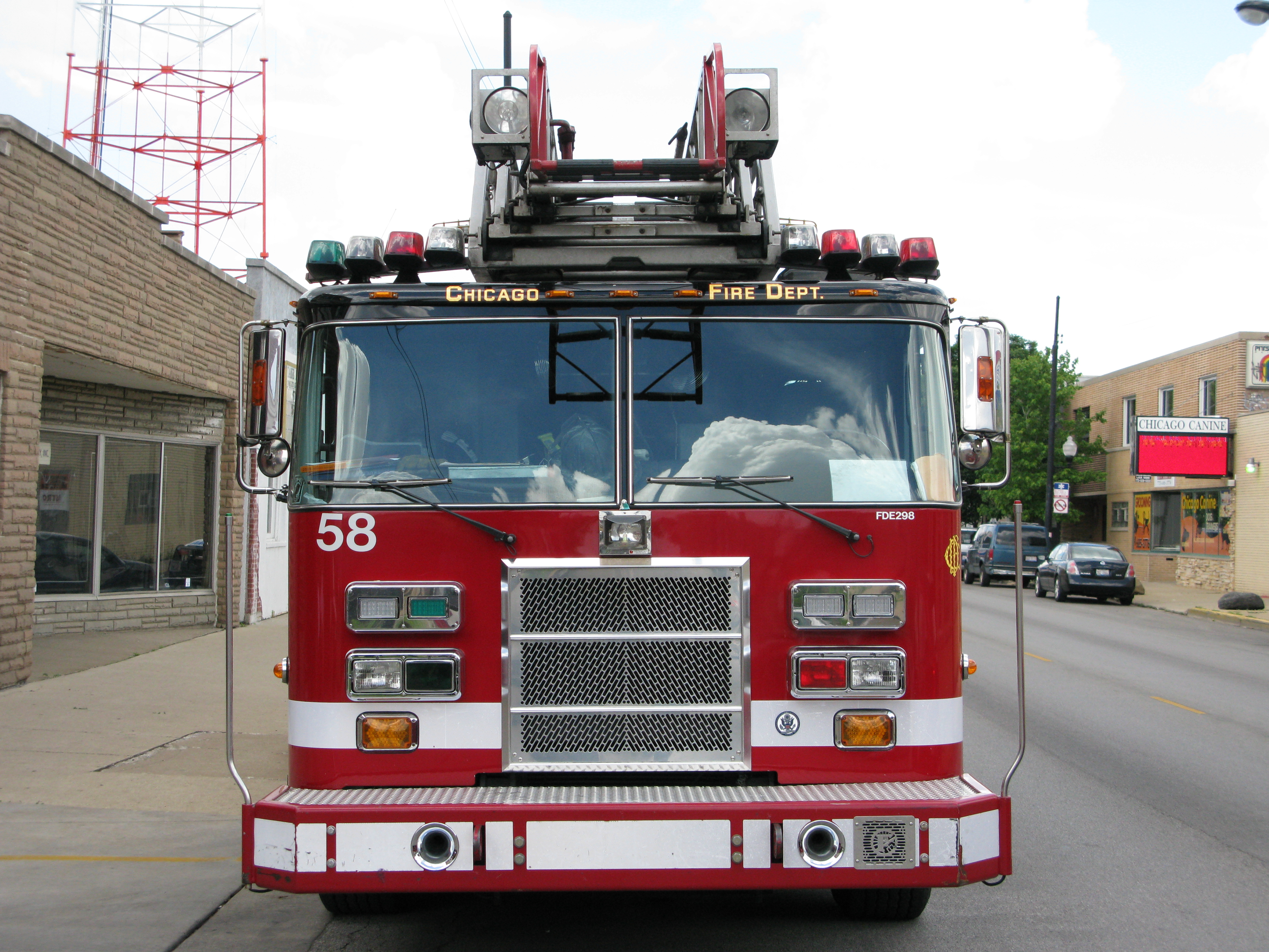 Chicago Fire Dept. Truck Company 58 Front view 4911 W Belmont ave, Chicago